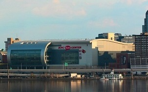 Skyline of Louisville, Kentucky from April 2011.